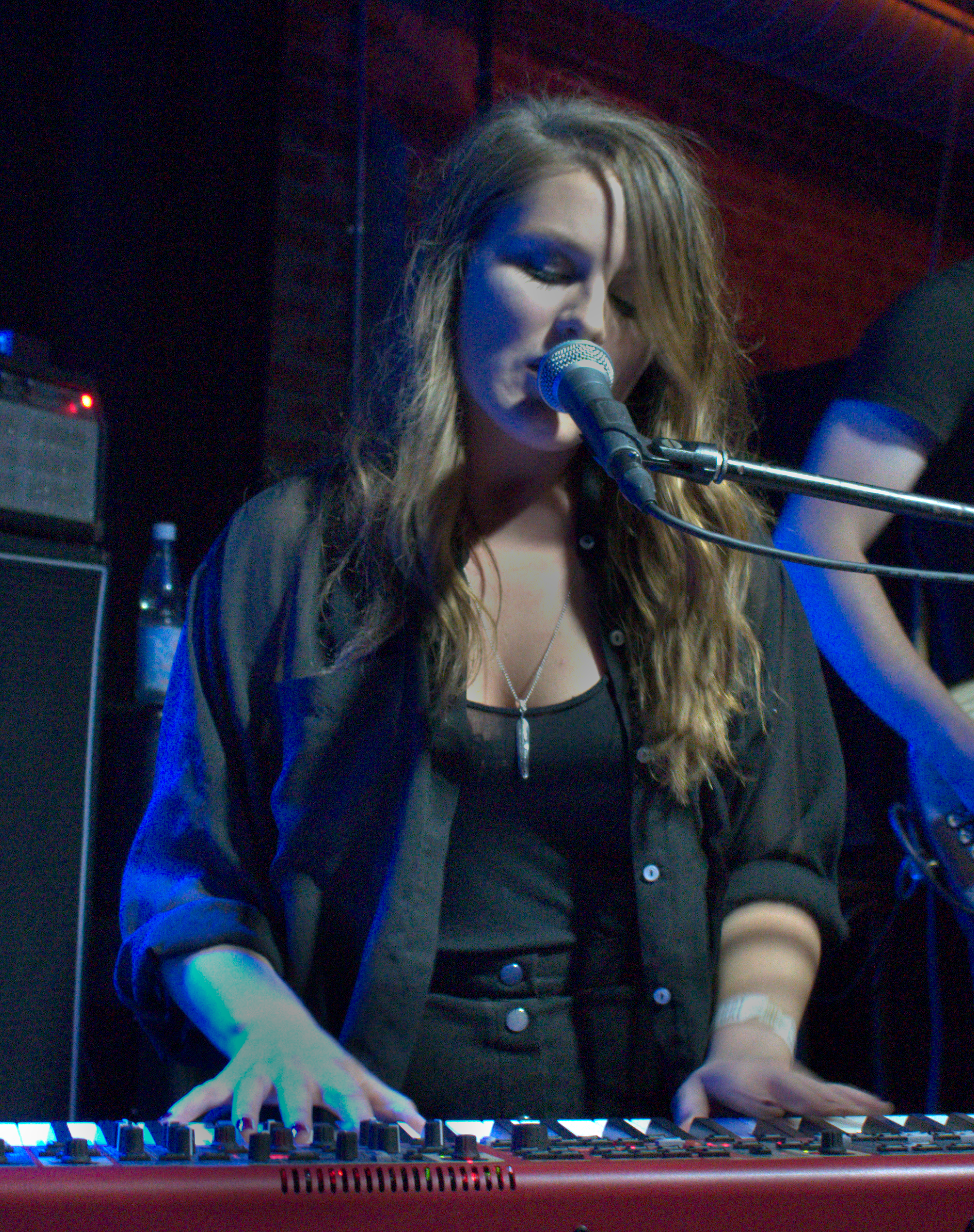 Norma Jean Martine on stage